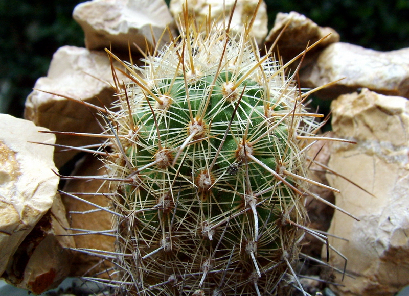 Thelocactus hastifer Mexico - Queretaro (1800-2000 m) Frost Tolerance: Hardy